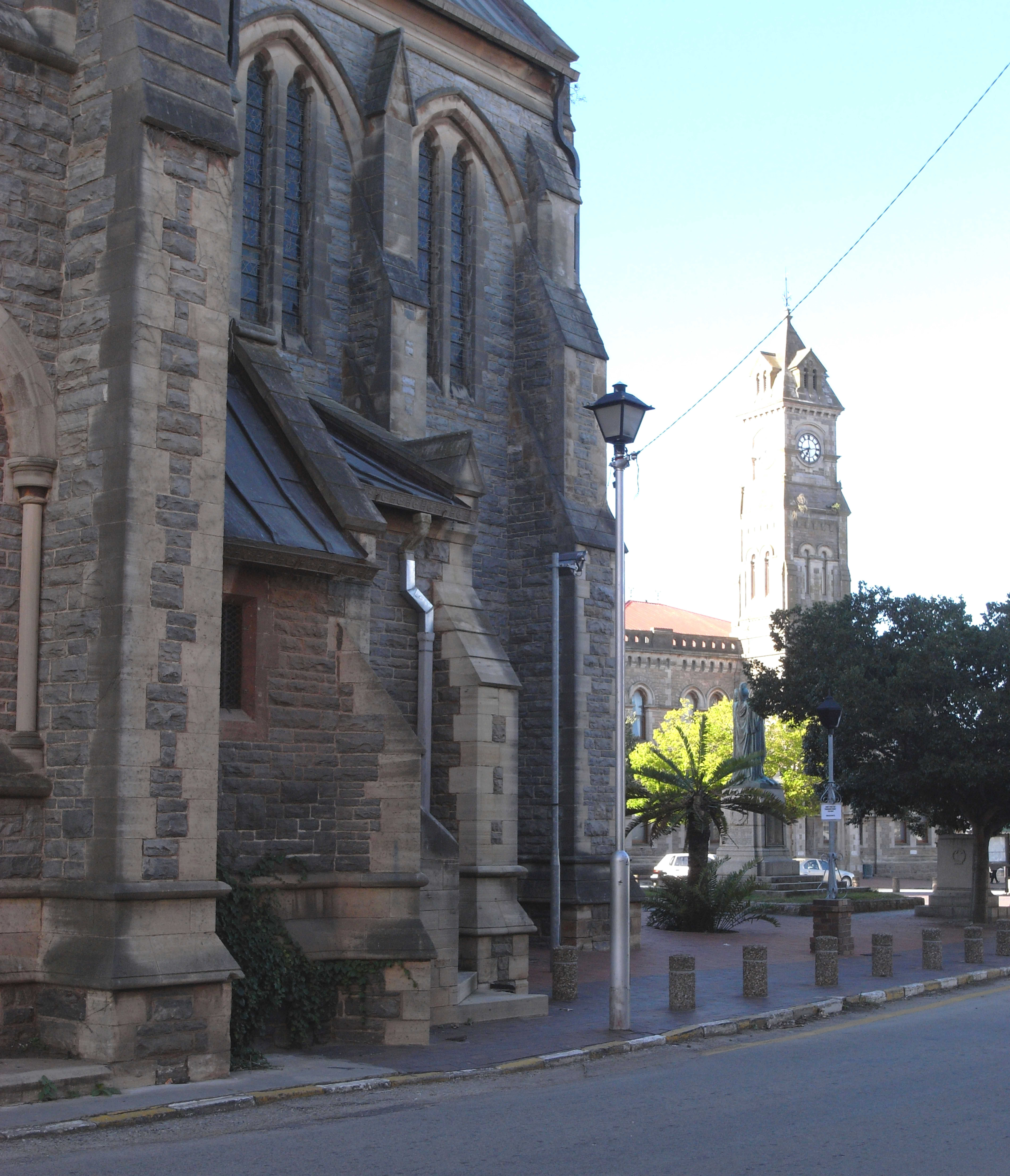 cathedral St. Michael and St. George of Grahamstown, built 1890 (Eastern Cape, South Africa) front with karoo sandstone